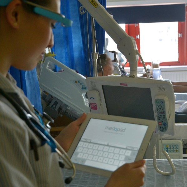 Medopad and Google Glass being used in a hospital.